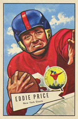 American football player Eddie Price on a 1952 Bowman Large card.